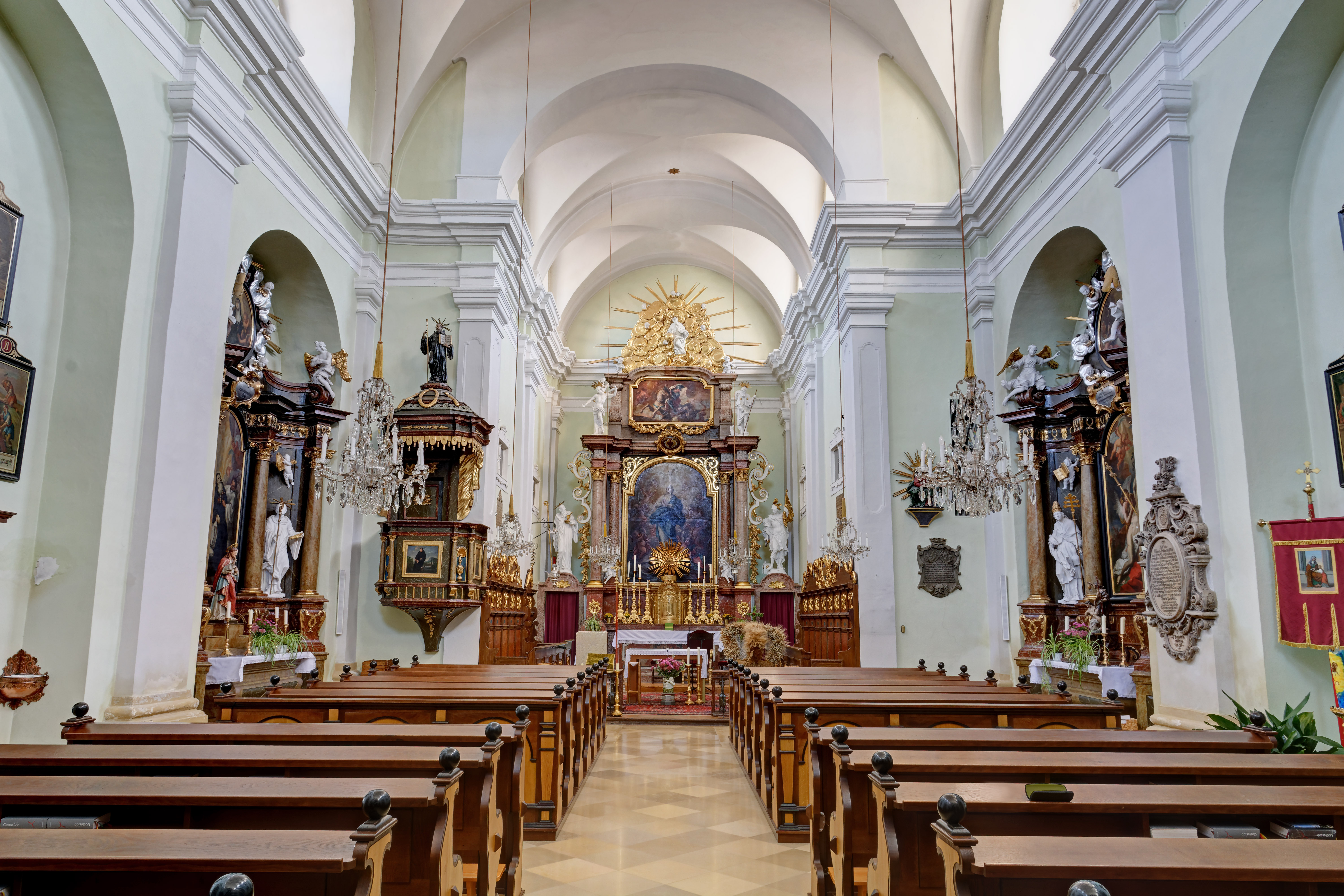 Indoor of the catholic parish church of Gaweinstal, Lower Austria, Austria